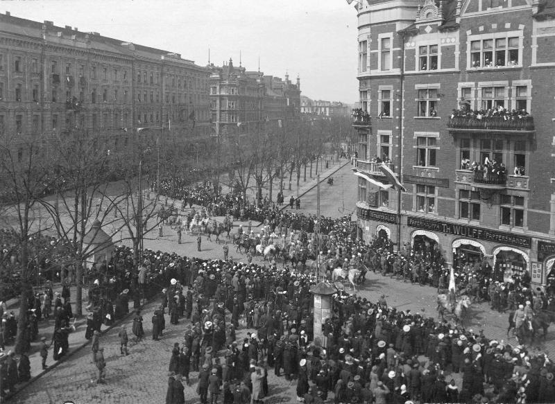 White parade in Helsinki 1918.